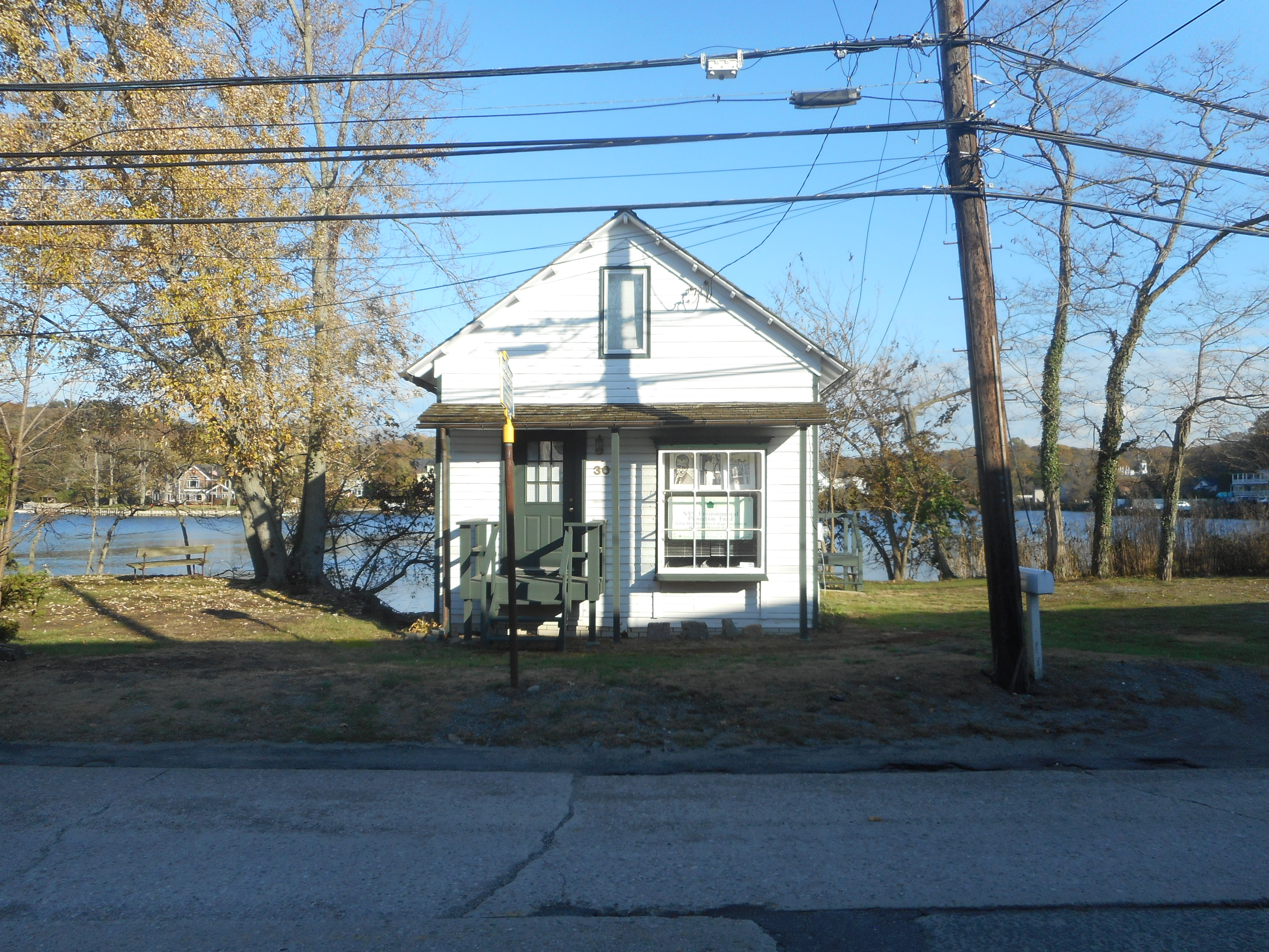 Small NRHP-listed shack shared by modern artists Arthur Dove and Helen Torr, a tiny, one-room cottage at 30 Centershore Road on the southwestern edge of Titus Mill Pond in Centerport, New York.